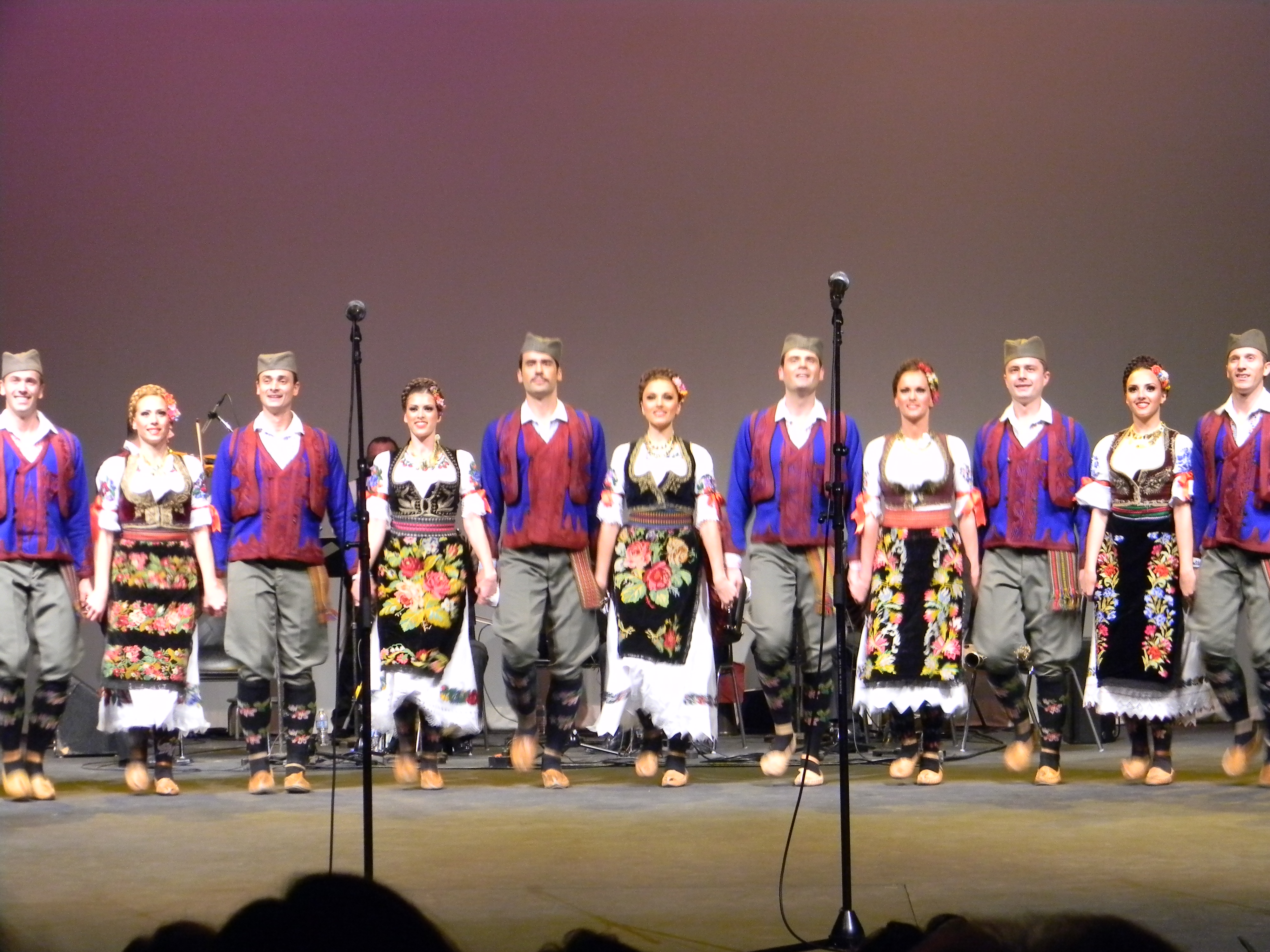 The Serbian National Folk Dance Ensemble Kolo presents Dances from Serbia. Hamilton, Canada - 2011. Choreographer Olga Skovran